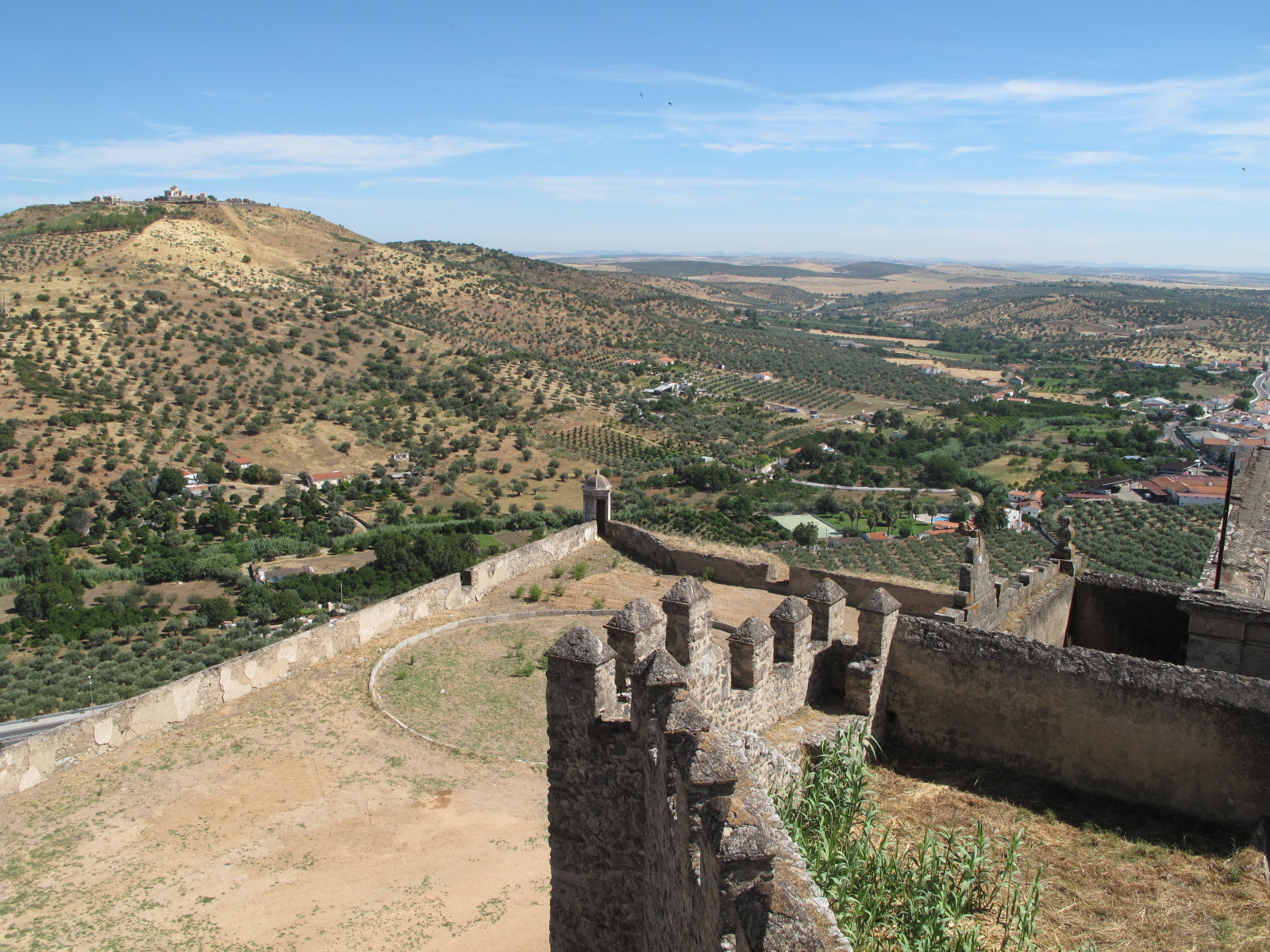 This file was uploaded for Wiki Loves Monuments in Portugal with the unique identifier 70566.